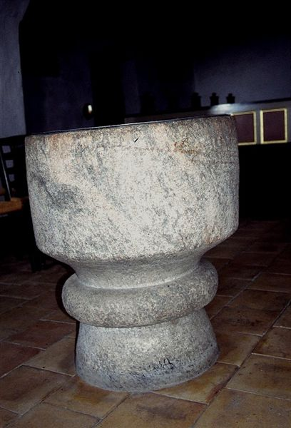 Fårevejle Kirke (church) in Odsherred Kommune. From apr. 1100